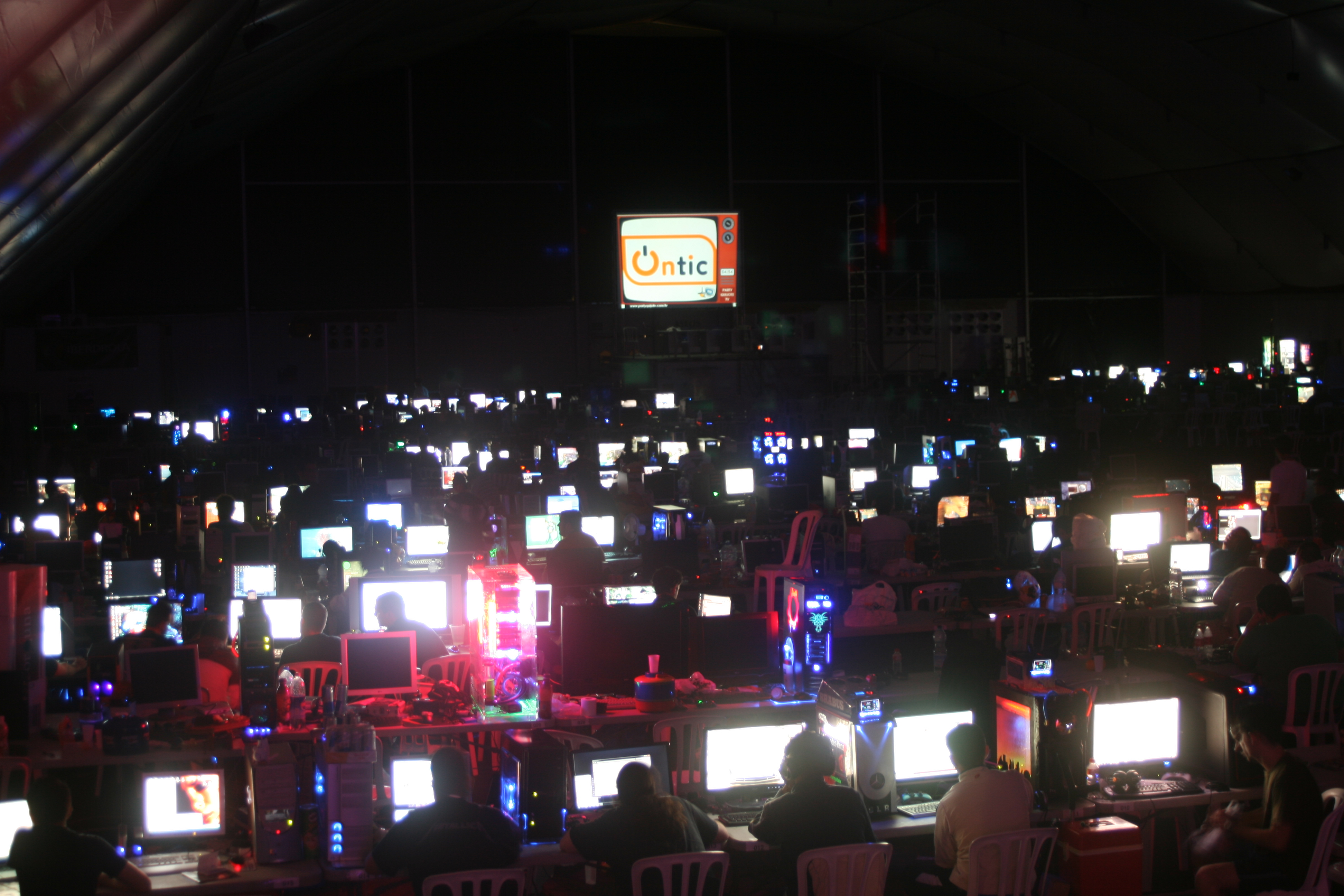 Night view of Party Quijote 2009